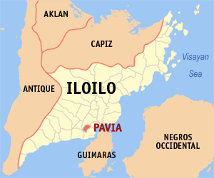 Map of Iloilo showing the location of Pavia